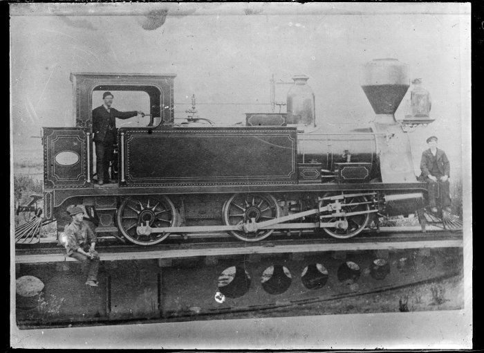 M class locomotive NZ. Part of the A P Godber Collection, Alexander Turnbull Library, Wellington